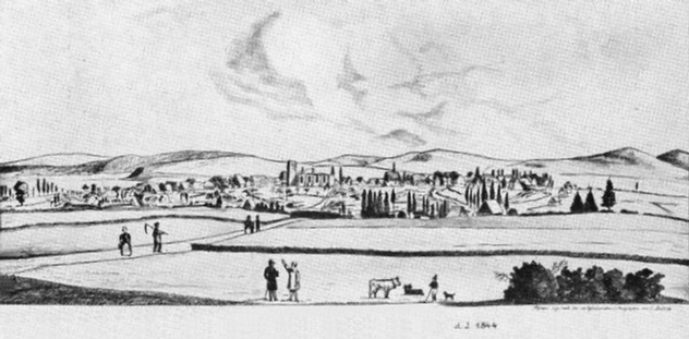 Medebach Town (Germany, 1844), burnt